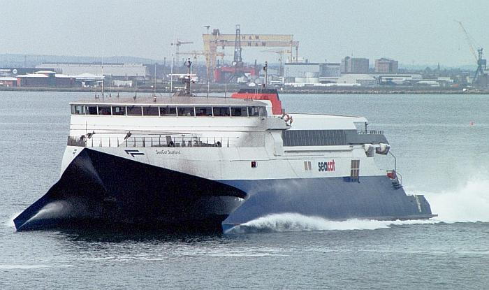 SeaCat Scotland departs Belfast for Scotland